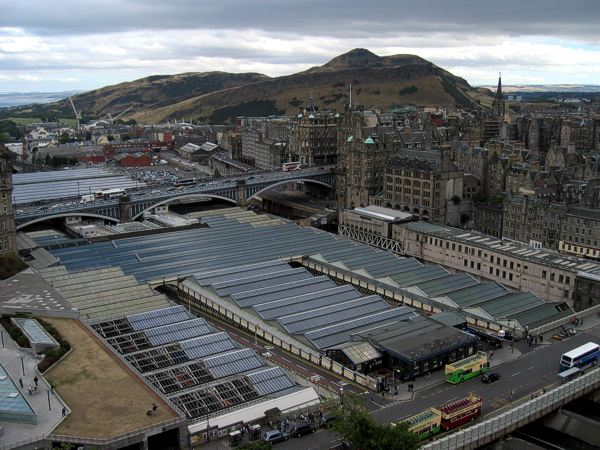 A view of the Scottish capital Edinburgh, from the Scott Monument looking southeast. The expansive glass roof of Waverley Station fills the drained valley between Waverley and North bridges, and the city's medieval old town (resting on an alluvial ridge behind the crag of Edinburgh Castle) is visible on the right. In the distance white cranes continue to work on the controversial new building for the Scottish Parliament near Holyrood Palace, beyond which is the hill Arthur's Seat. Photograph taken by Michael Reeve, 13 September en:2003.